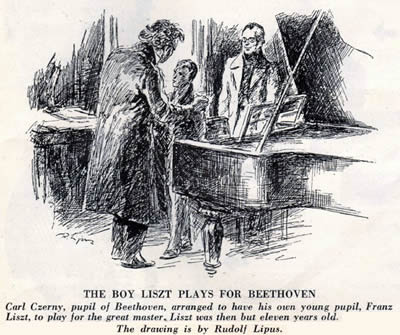 THE BOY LISZT PLAYS FOR BEETHOVEN Carl Czerny, pupil of Beethoven, arranged to have his own young pupil, Franz Liszt, to play for the great master. Liszt was then but eleven years old. In writing, later, of this meeting, Liszt said, "I played the first movement of the Concerto in C major; and, when I had finished, Beethoven grasped me with both hands, kissed me on the forehead very softly and said, "Go, thou art blessed; because you will bring joy and blessings to many others. There is nothing finer or more beautiful in all the world." The drawing is by Rudolf Lipus.